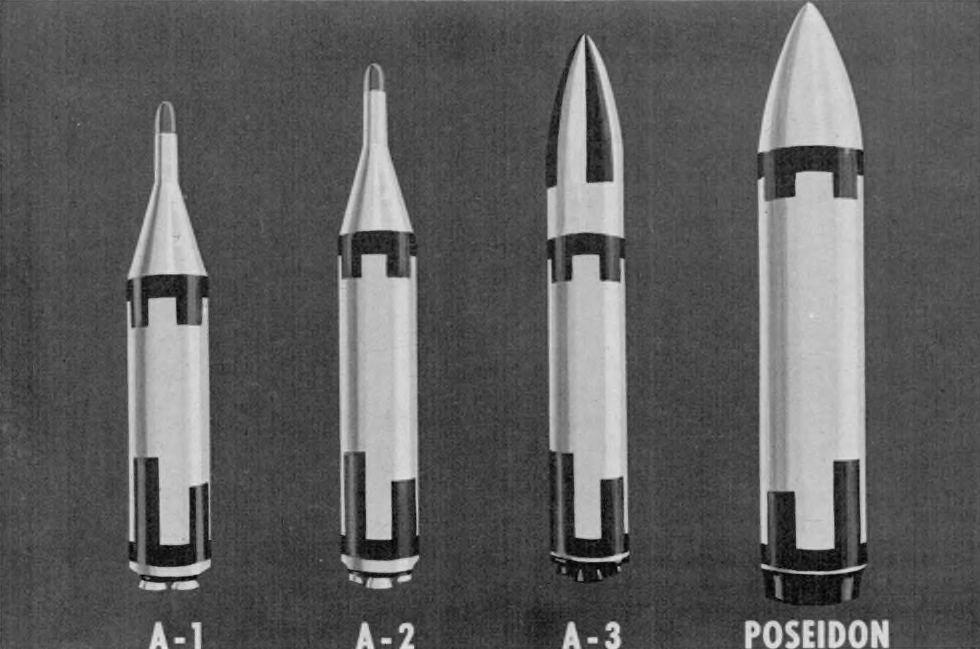 Polaris-Poseidon family of SLBMs. This artist's sketch shows the comparative designs of the three versions of the Polaris missile and the proposed Poseidon missile. Poseidon is a follow-on missile to Polaris.